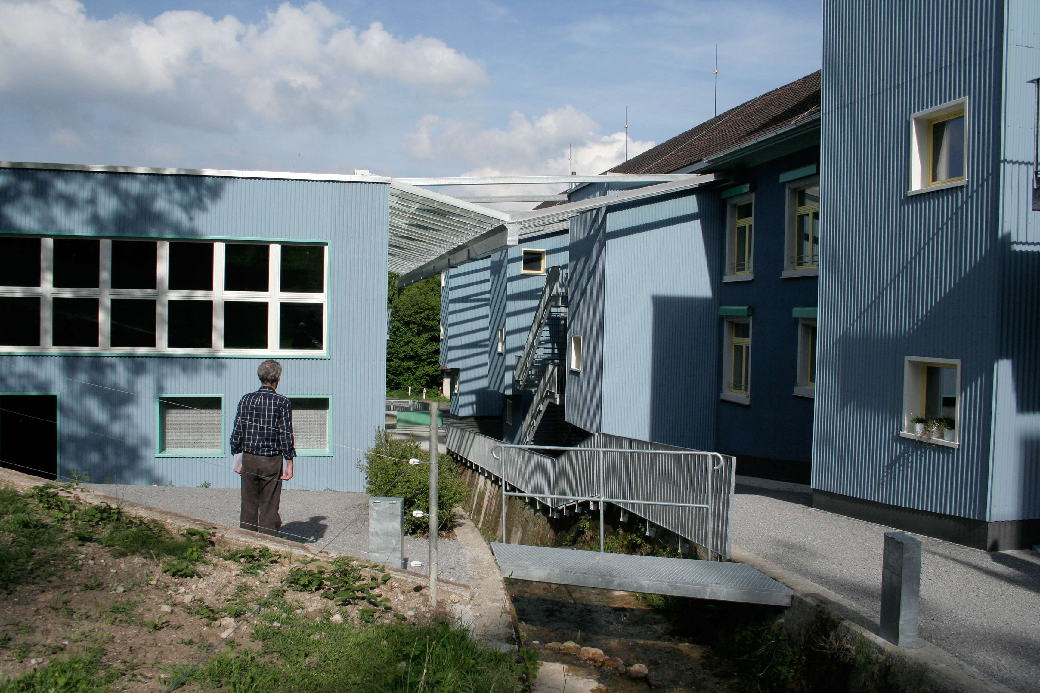 Ein imposantes Glasdach überspannt den Hueb-Bach und verbindet die beiden Bauten